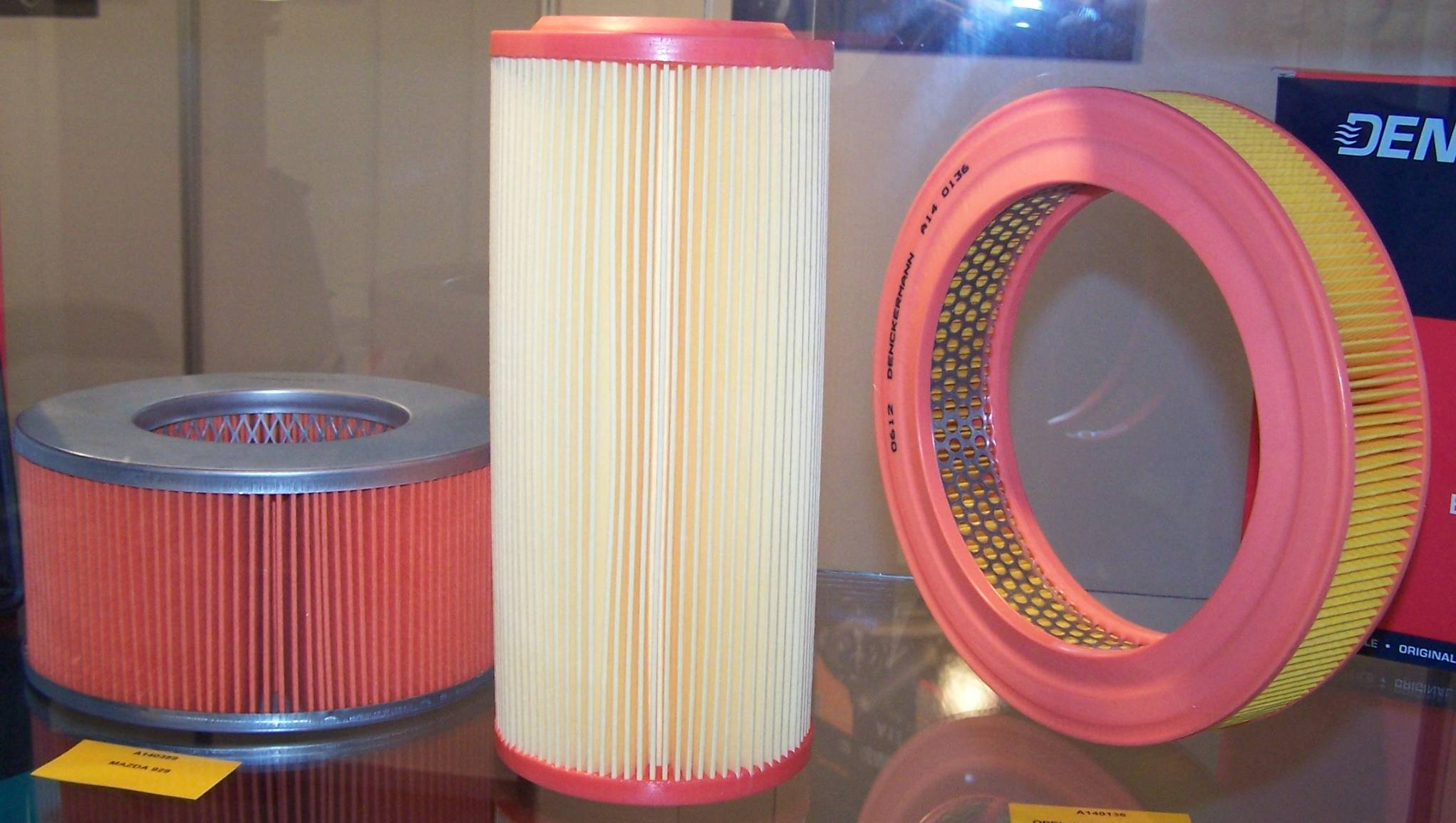 car air filters